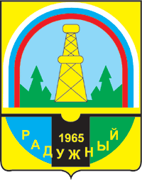 Raduzhny (Khanty-Mansia), coat of arms